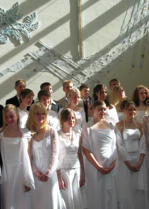 Confirmands (2004) in Denmark